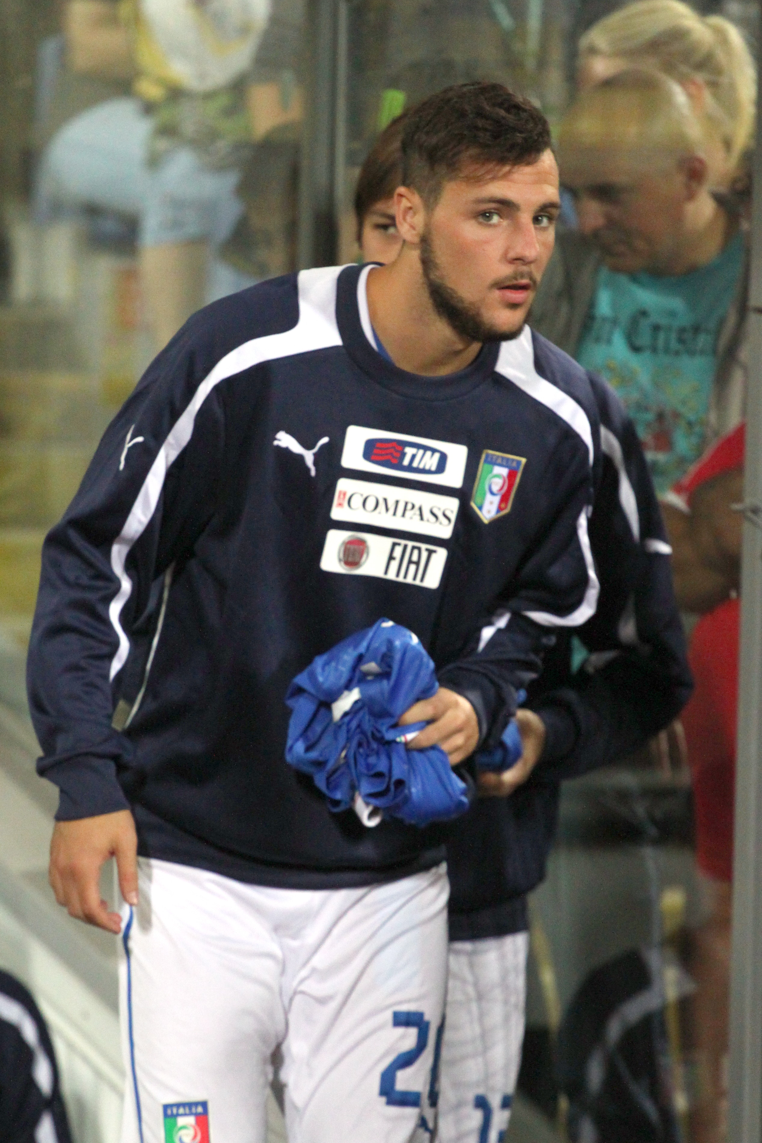 Mattia Destro, Italian footballer.